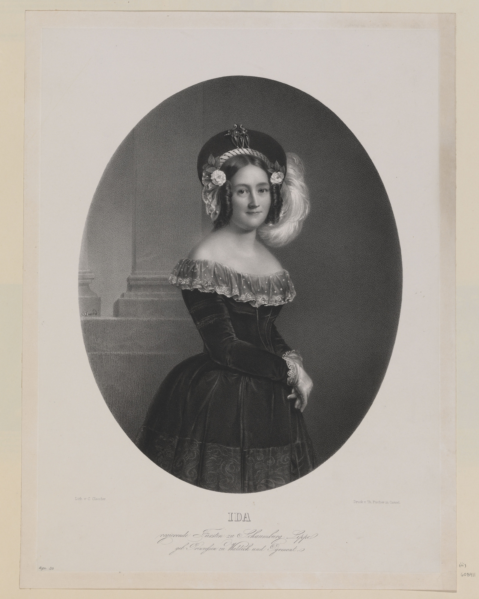 Ida, Consort of George I, Prince of Schaumburg-Lippe, Daughter of Prince Georg of Waldeck and Pyrmont